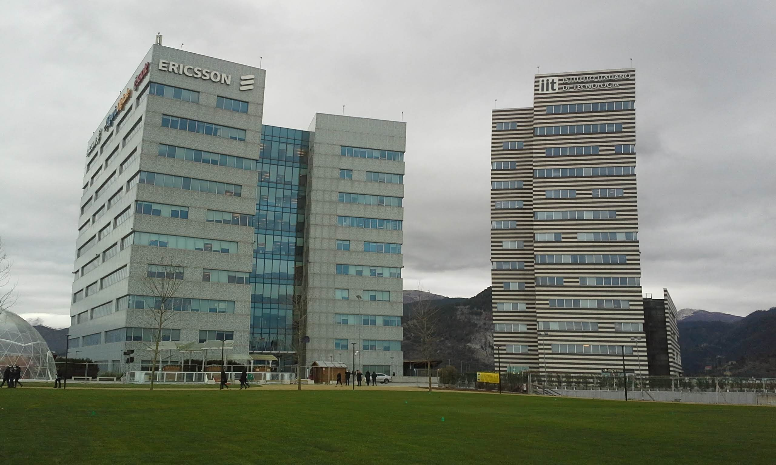 Picture of the science technology park Genoa Erzelli Great Campus